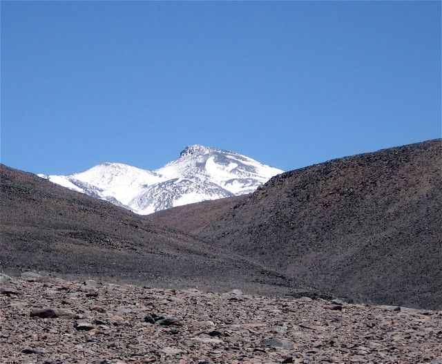 Ojos del Salado in Argentina, the highest volcano in the world at 6,893 m (22,615 ft).